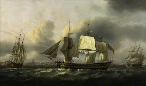 Oil on canvas, 86.5 x 152 cm